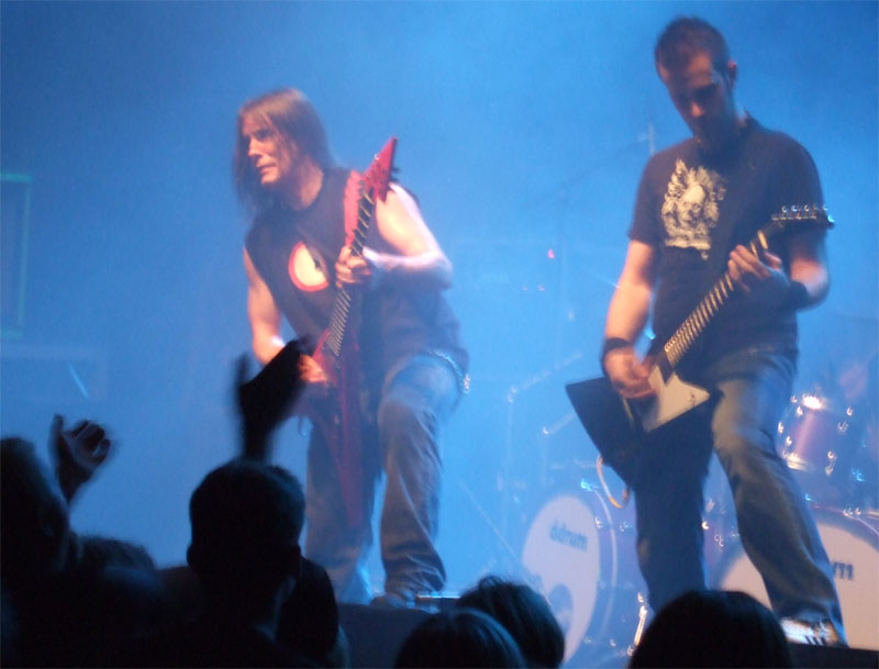 Jeff Waters and Dave Padden of Annihilator at Sentrum Scene in Oslo, Norway